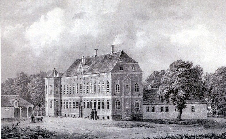 Ravnstrup Manor at Næstved, Denmark